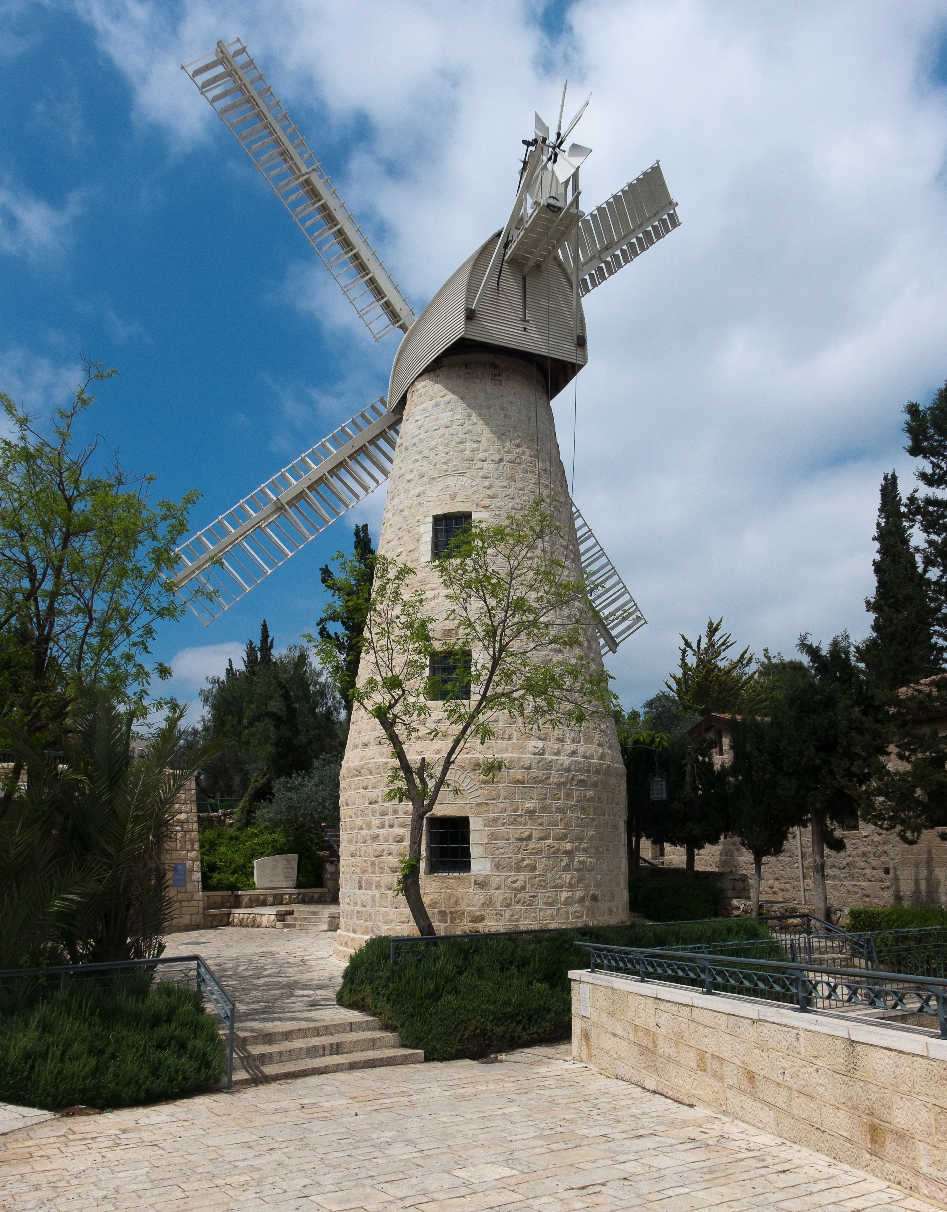 The Montefiore Windmill is a landmark windmill in Jerusalem, Israel